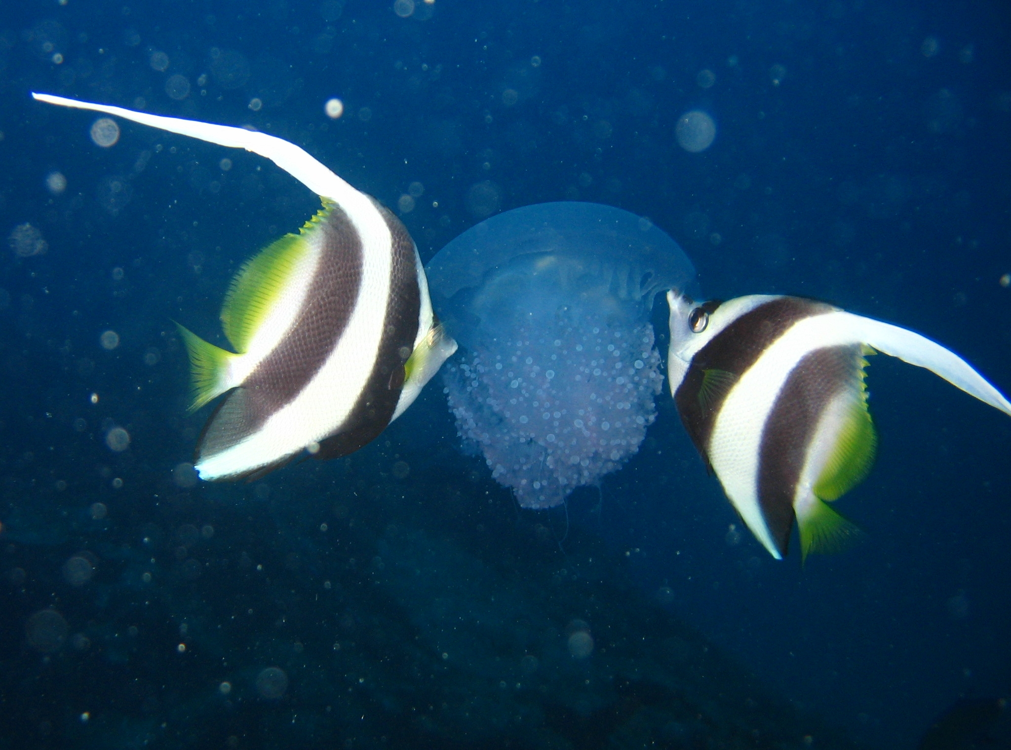 Jellyfish being nibbled on by longfin bannerfish (Heniochus acuminatus) Image ID: reef0556, NOAA's Coral Kingdom Collection Location: Chuuk, Federated States of Micronesia